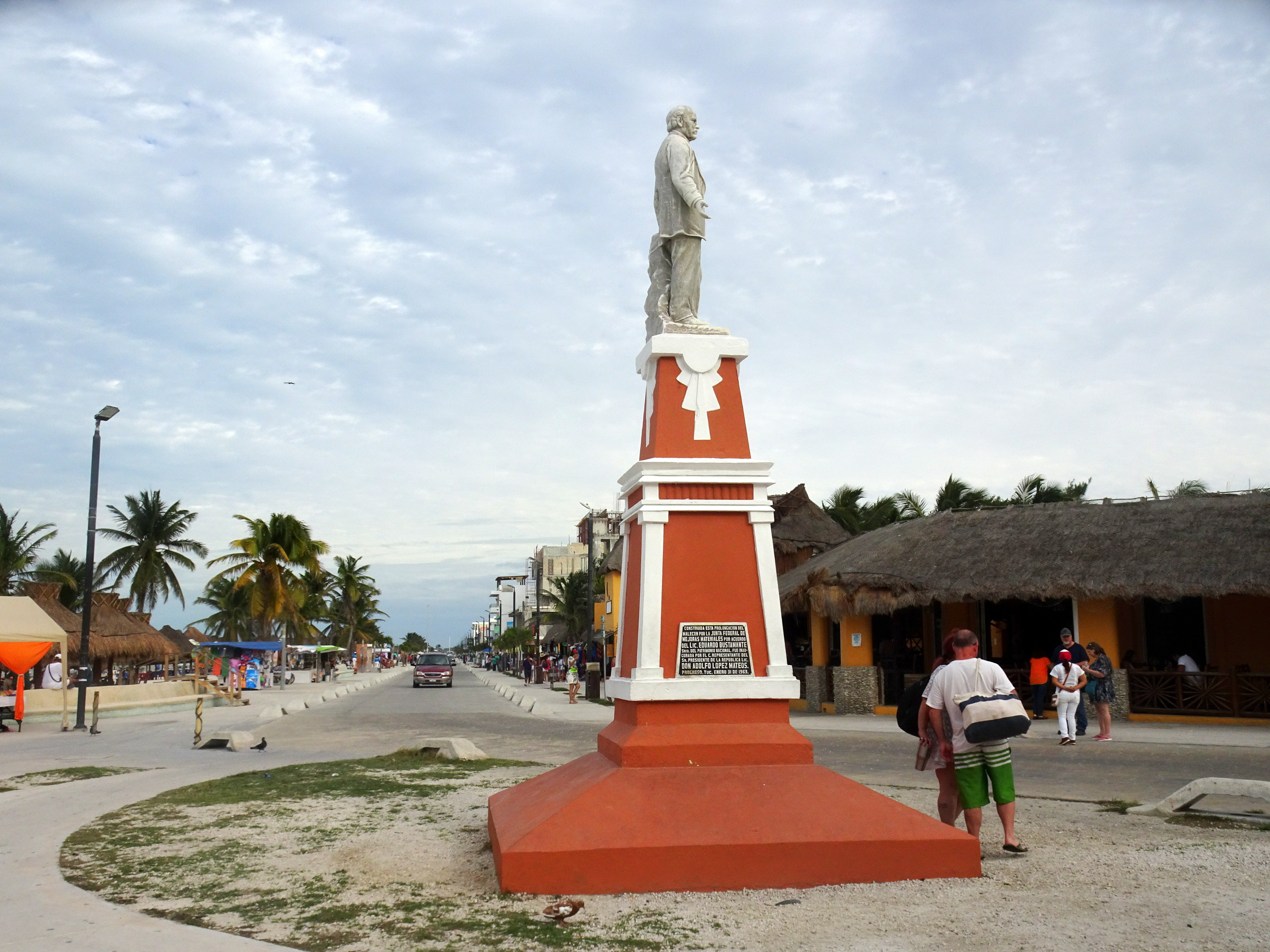 The monument of Juan Miguel Castro, founder of Progreso, in the city centre and a view of its malecon, November 2018